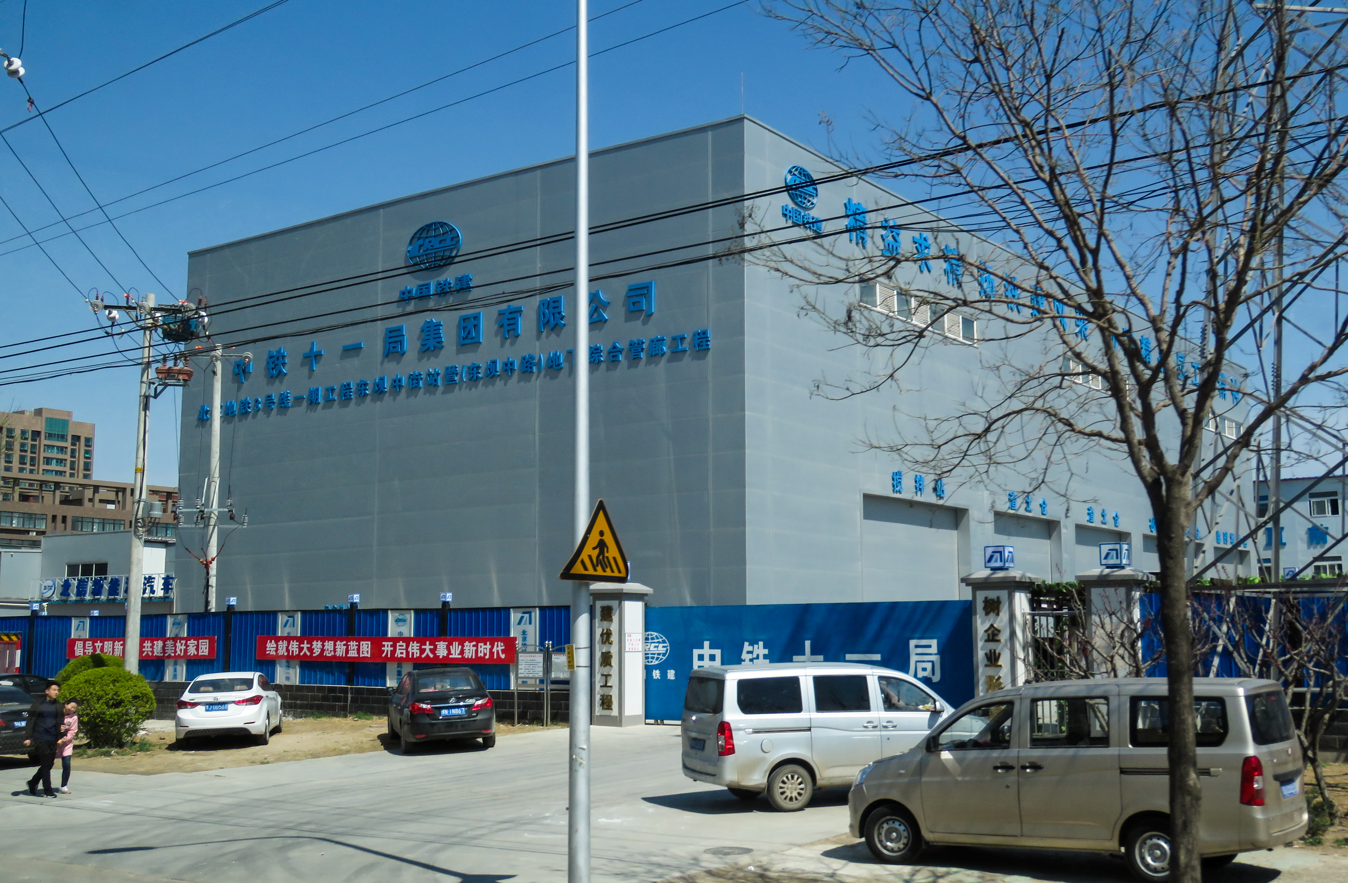 Taken from a 640.